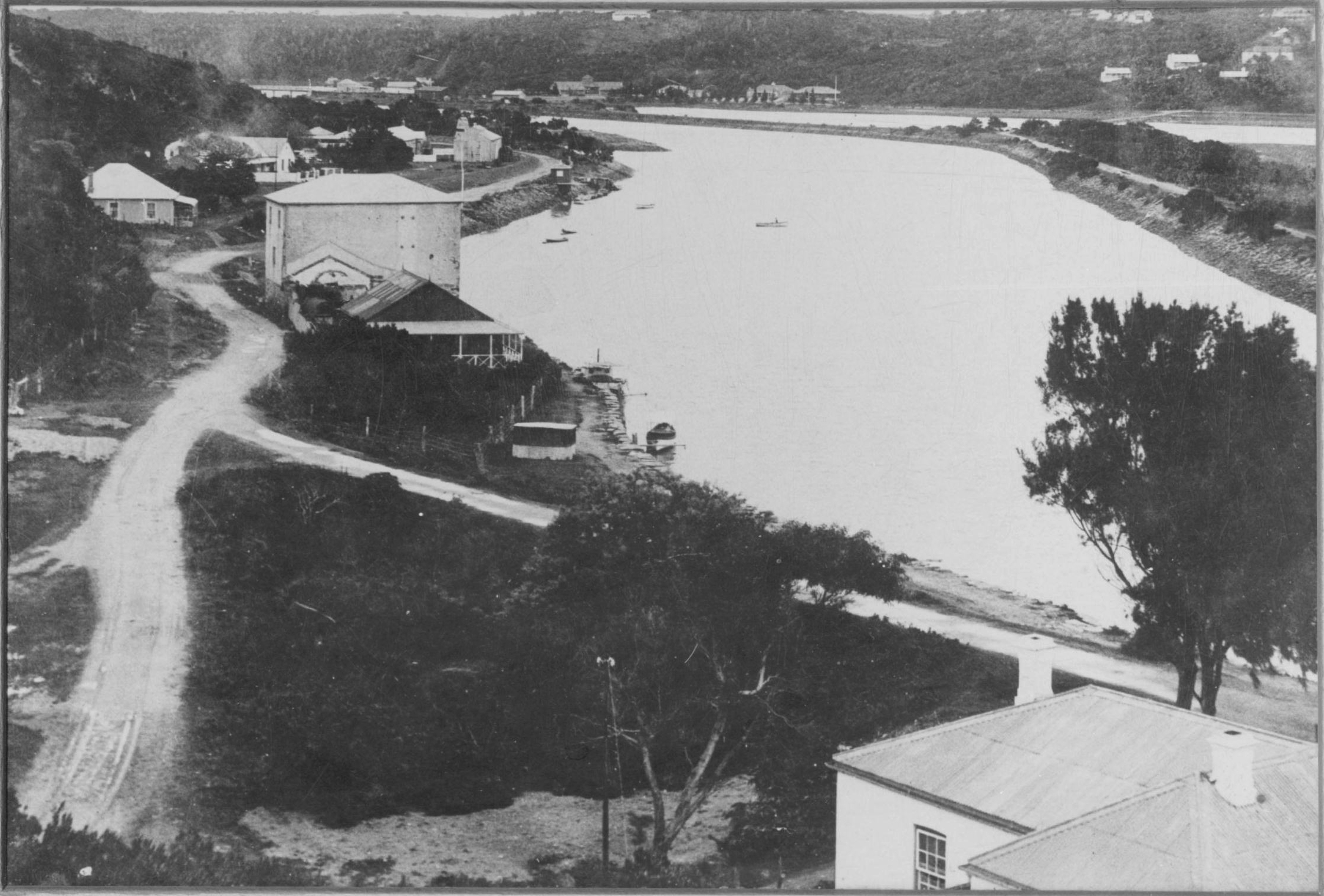 Old Mill House. Port Alfred-Eastern Cape-South Africa